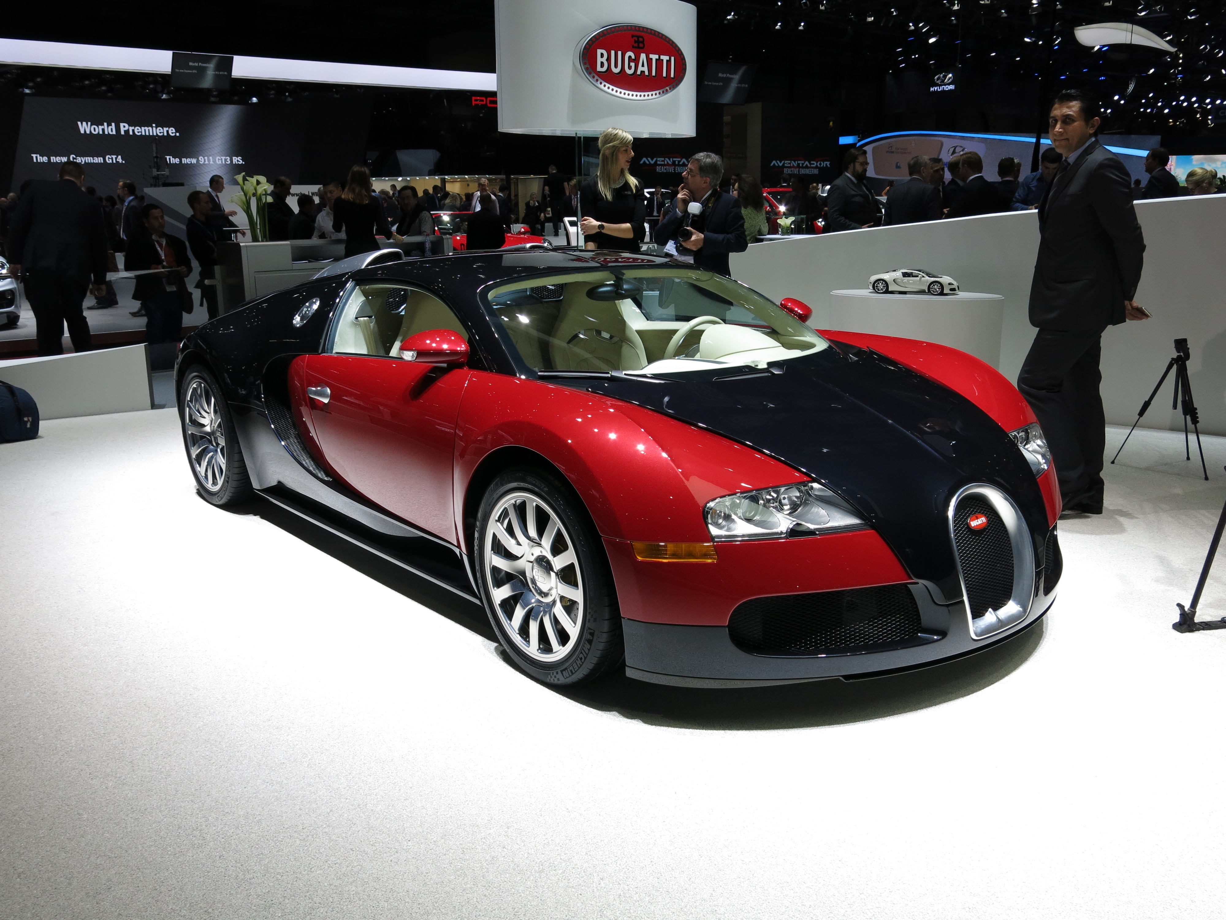 Geneva Motor Show 2015 (photo taken on the first press day)